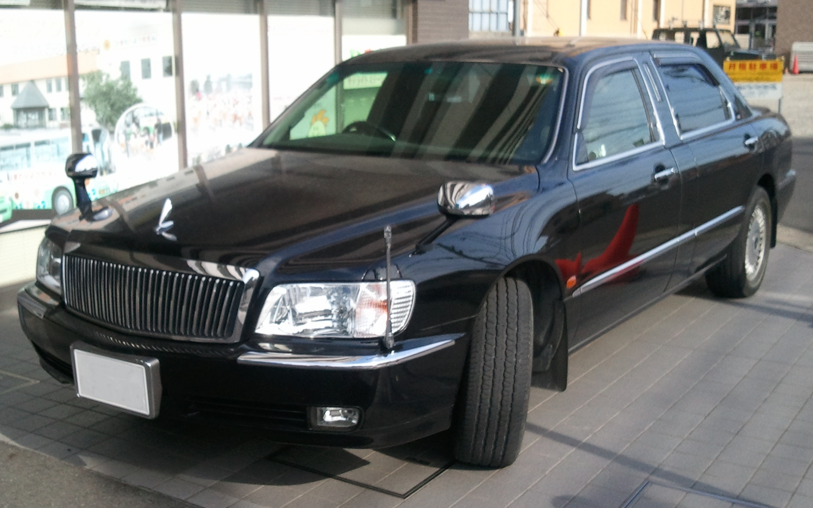 Mitsubishi Dignity